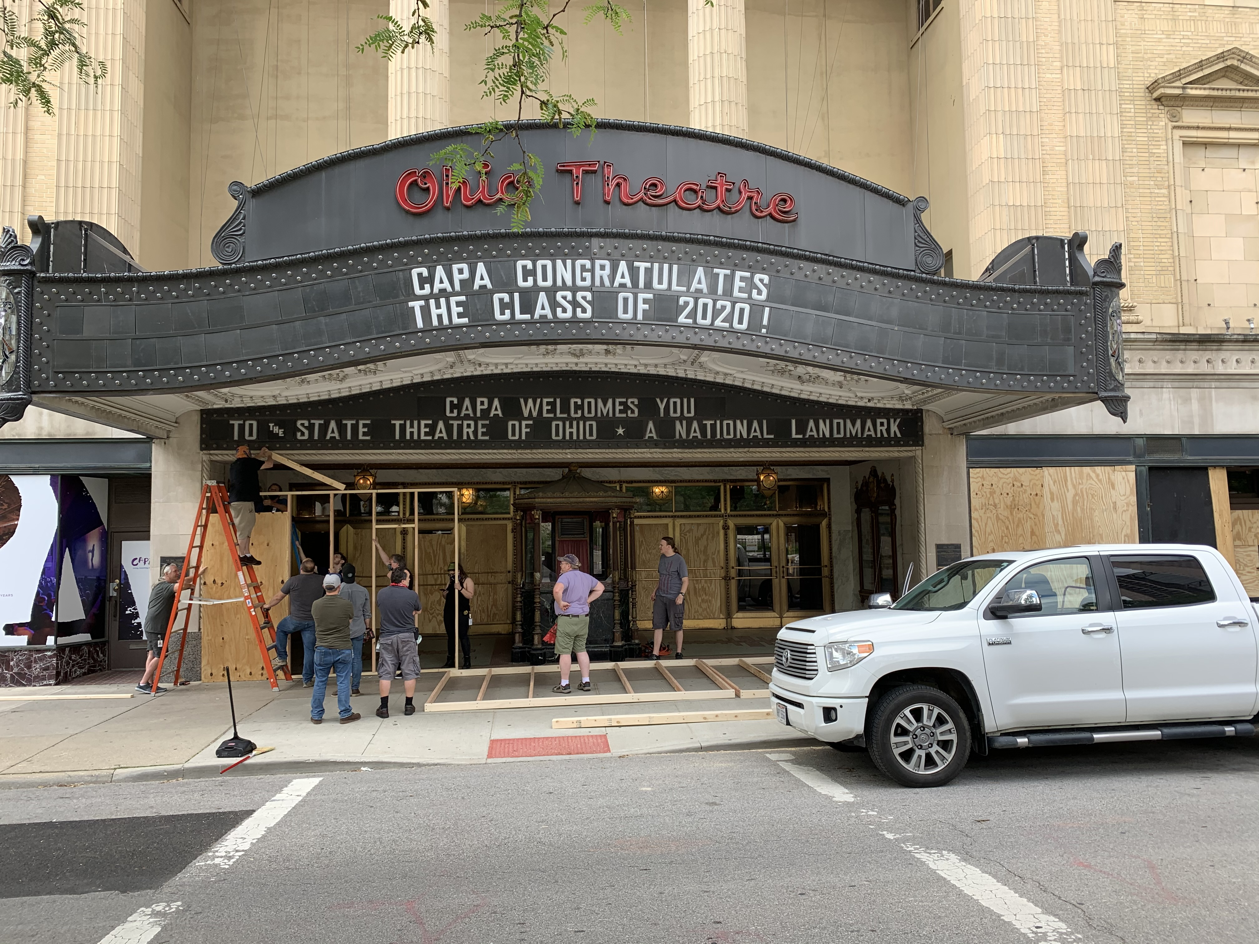 Ohio Theater main doors being boarded up in the aftermath of protests against the death of George Floyd in Columbus, OH. Photograph taken the morning after the front doors were damaged.